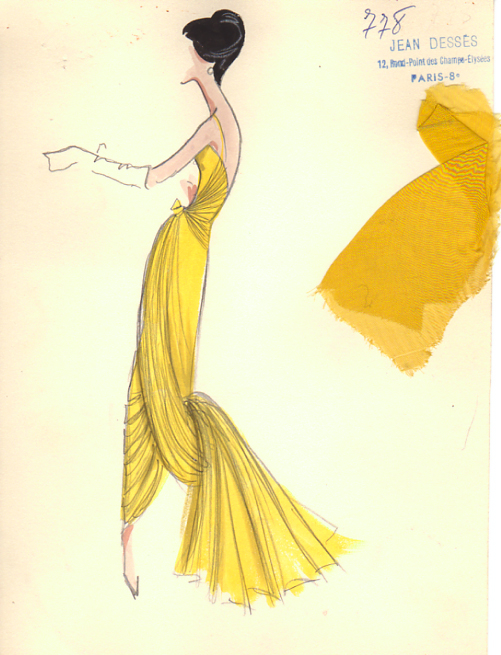 Yellow chiffon dress, Jean Dessès